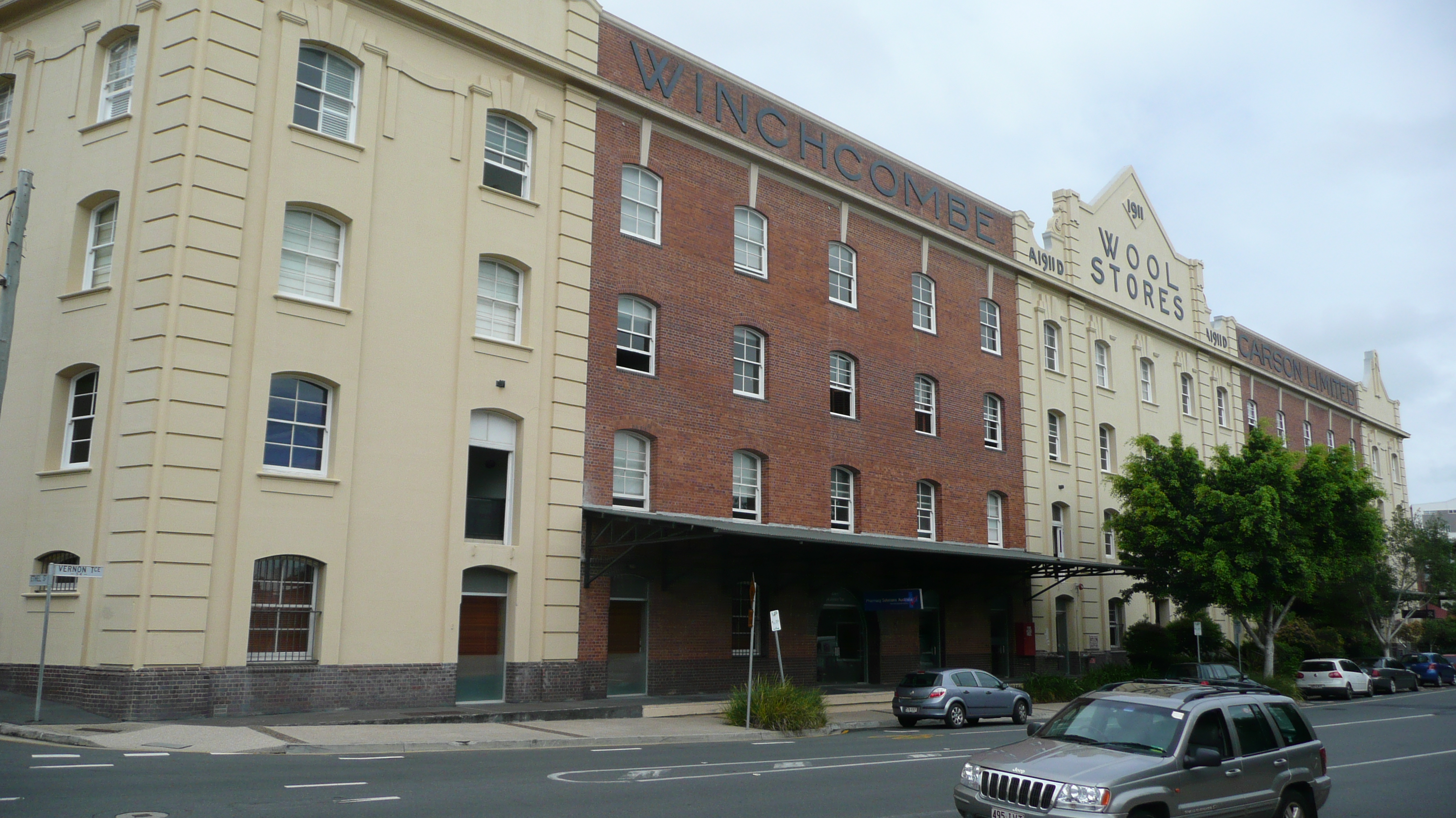 Winchcombe & Carson Wool Store, Teneriffe